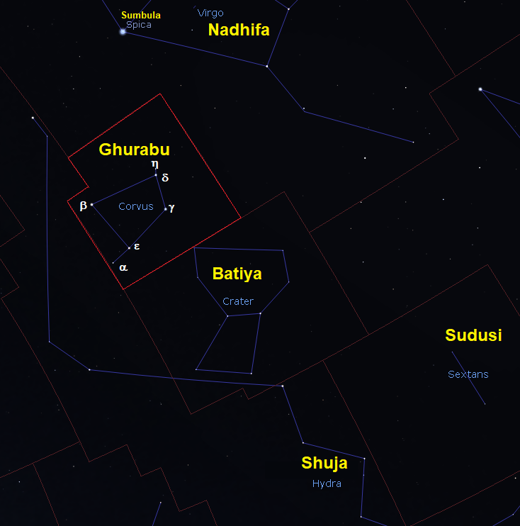 Constellation Corvus as seen from Tanzania, swahili labelled Kiswahili: Kundinyota ya Ghurabu jinsi inavyoonekana Dar es Salaam